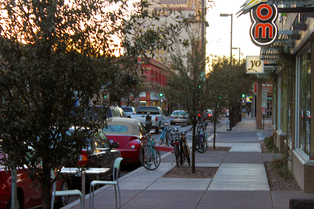 Downtown Tucson Congress Street scene near Fifth Avenue.